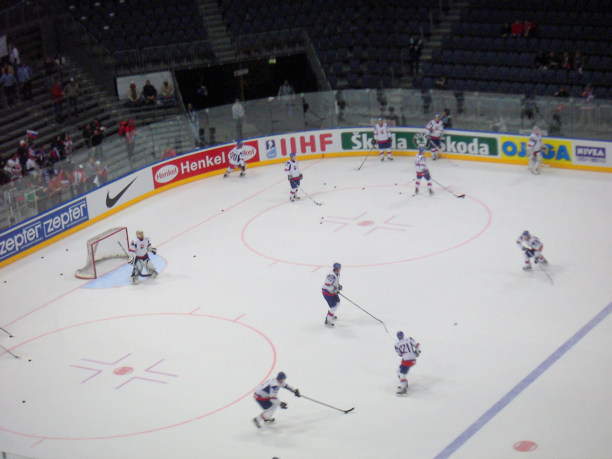 Slovak Team on Ice hockey World Championship 2010 Match BELARUS-SLOVAKIA, 15 minutes before starts the game